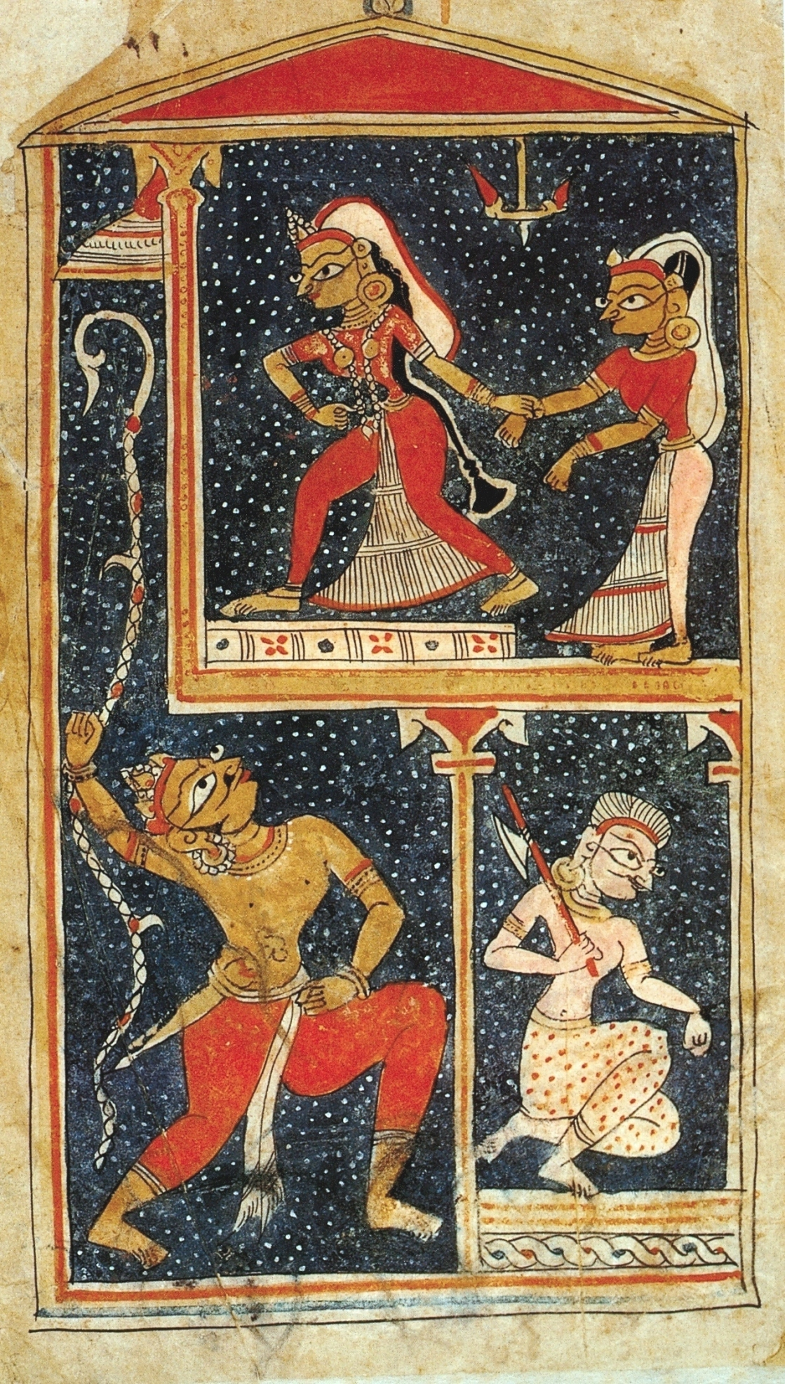 The Heroin Elopes. Laur Chanda (or Chandayana) of Mulla Da'ud. India before the Mughals, probably Delhi-Jaunpur (Uttar Pradesh), 1450-75. Bharat kala Bhavan, Banaras Hindu University, Varanasi.